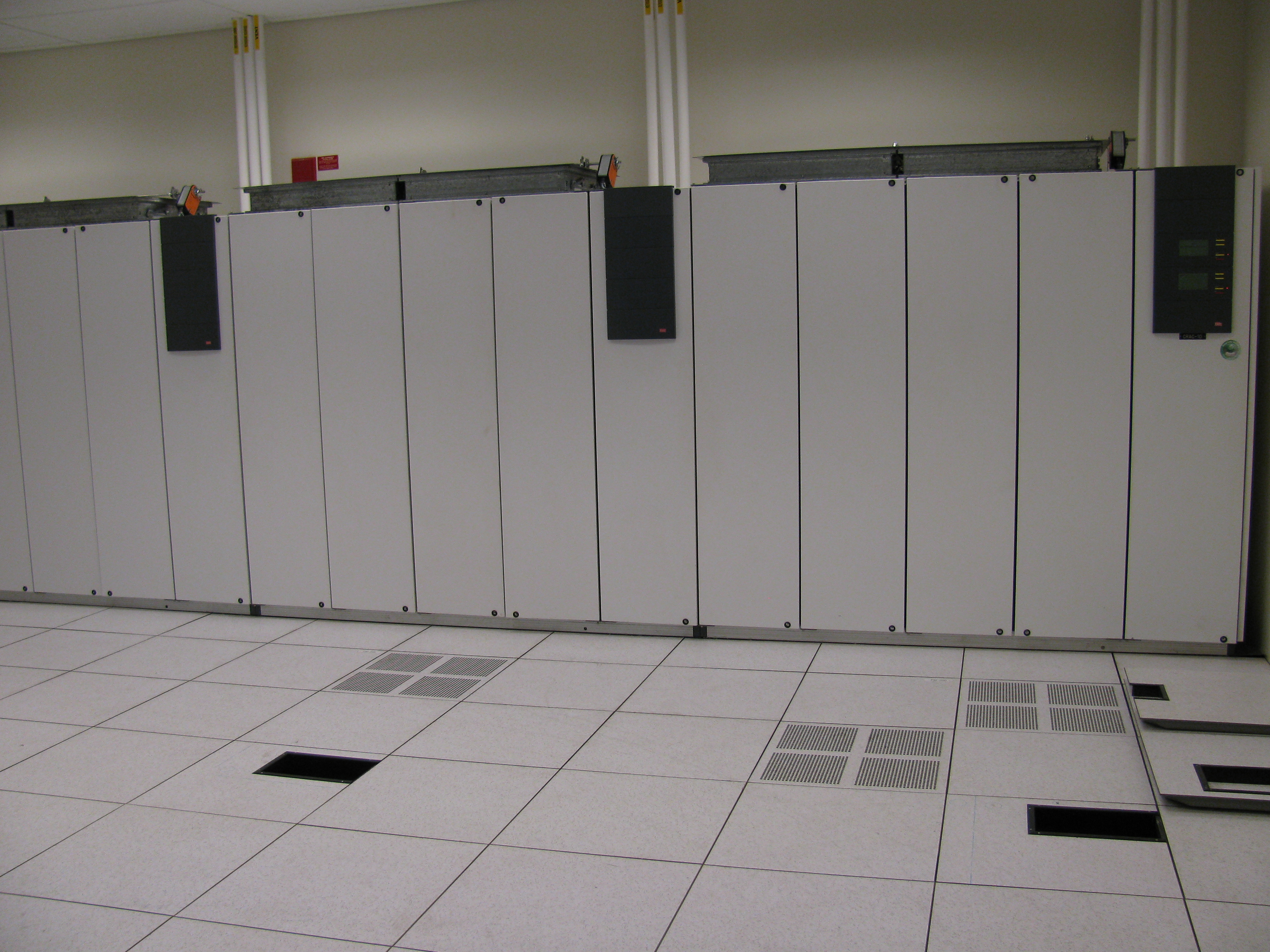 Data Center CRAC cooling